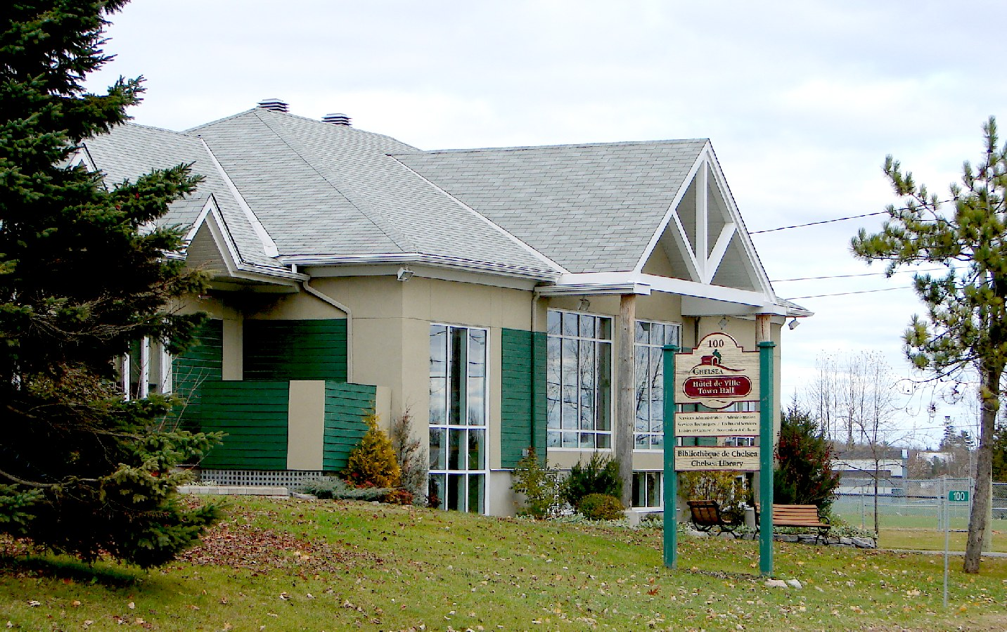 Town hall of Chelsea, Quebec, Canada